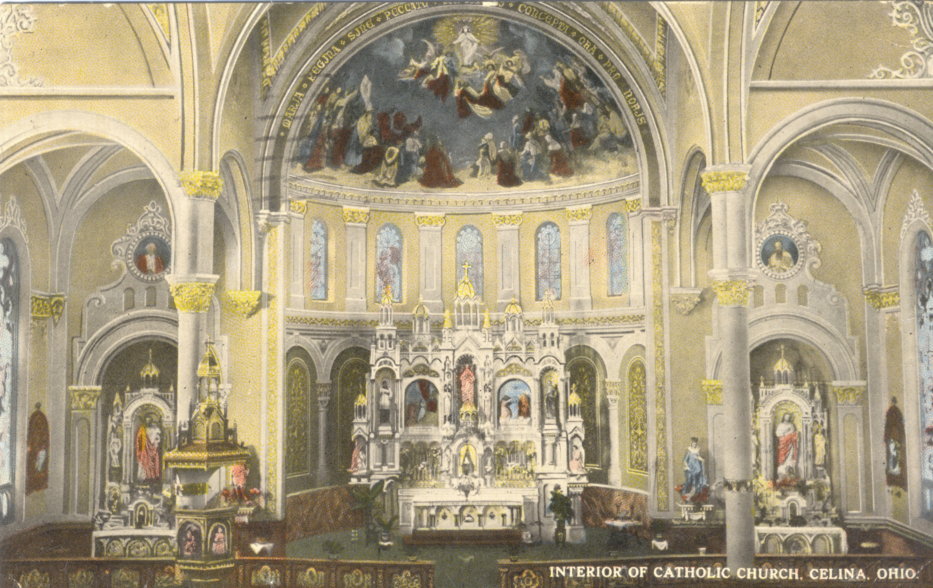 Persistent URL: Subject: Catholic churches; churches; religion; altars; Ohio--Celina; miami digital collections; bowden postcard collection